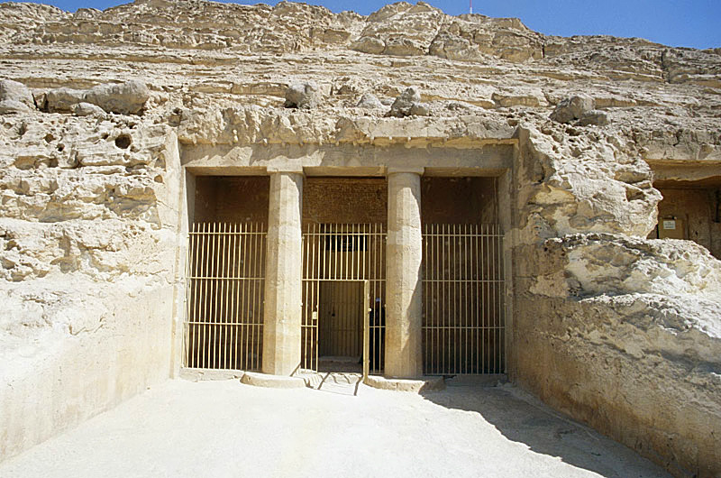 Tomb of Khnumhotep II, Beni Hasan, Egypt